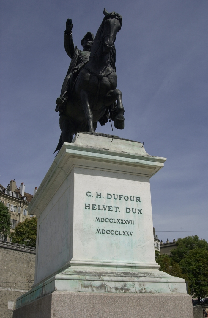 Equestrian statue of Guillaume Henri Dufour at Place Neuve in Geneva, Switzerland. Inscription on base reads "G. H. DUFOUR HELVET. DUX MDCCLXXXVII MDCCCLXXV"